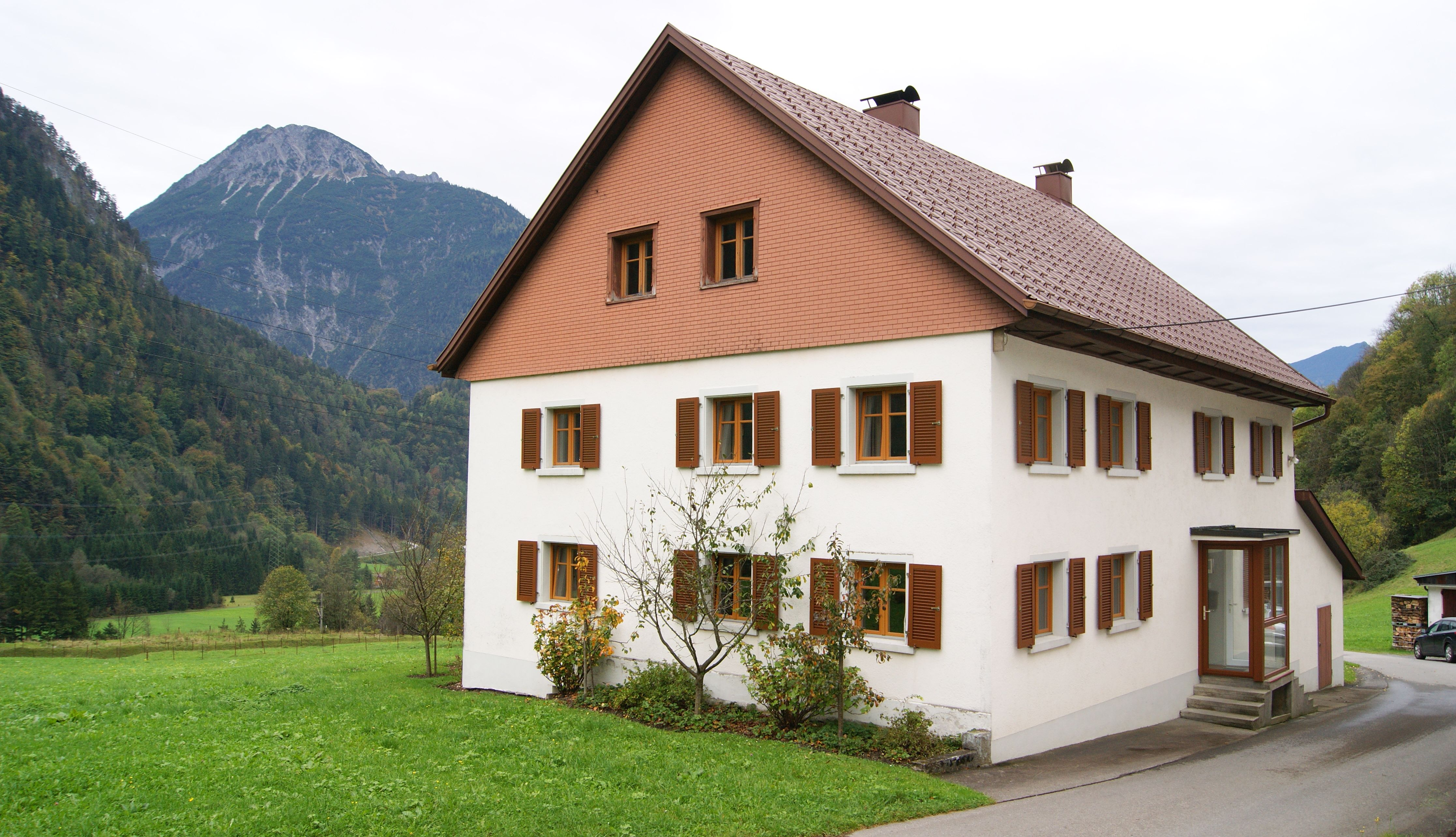 Church of St. Leonhard in St. Leonhard between Bing and Oberradin, Bludenz, Vorarlberg, Austria - Plague house.